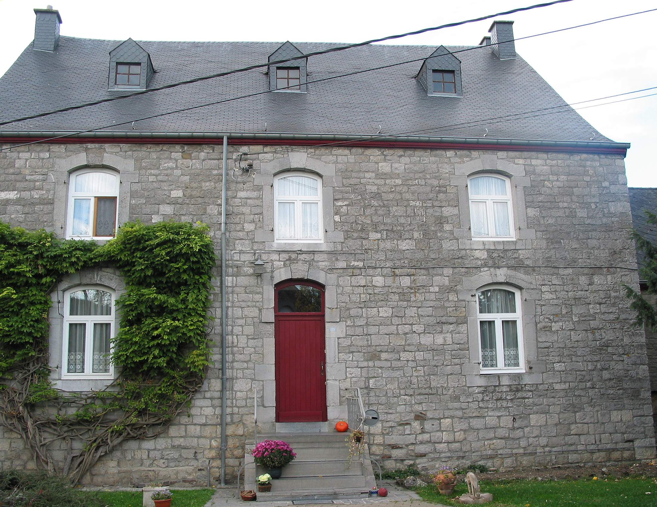 Lesterny (Belgium), old house, rue du Point d'Arrêt, 15 (1765).